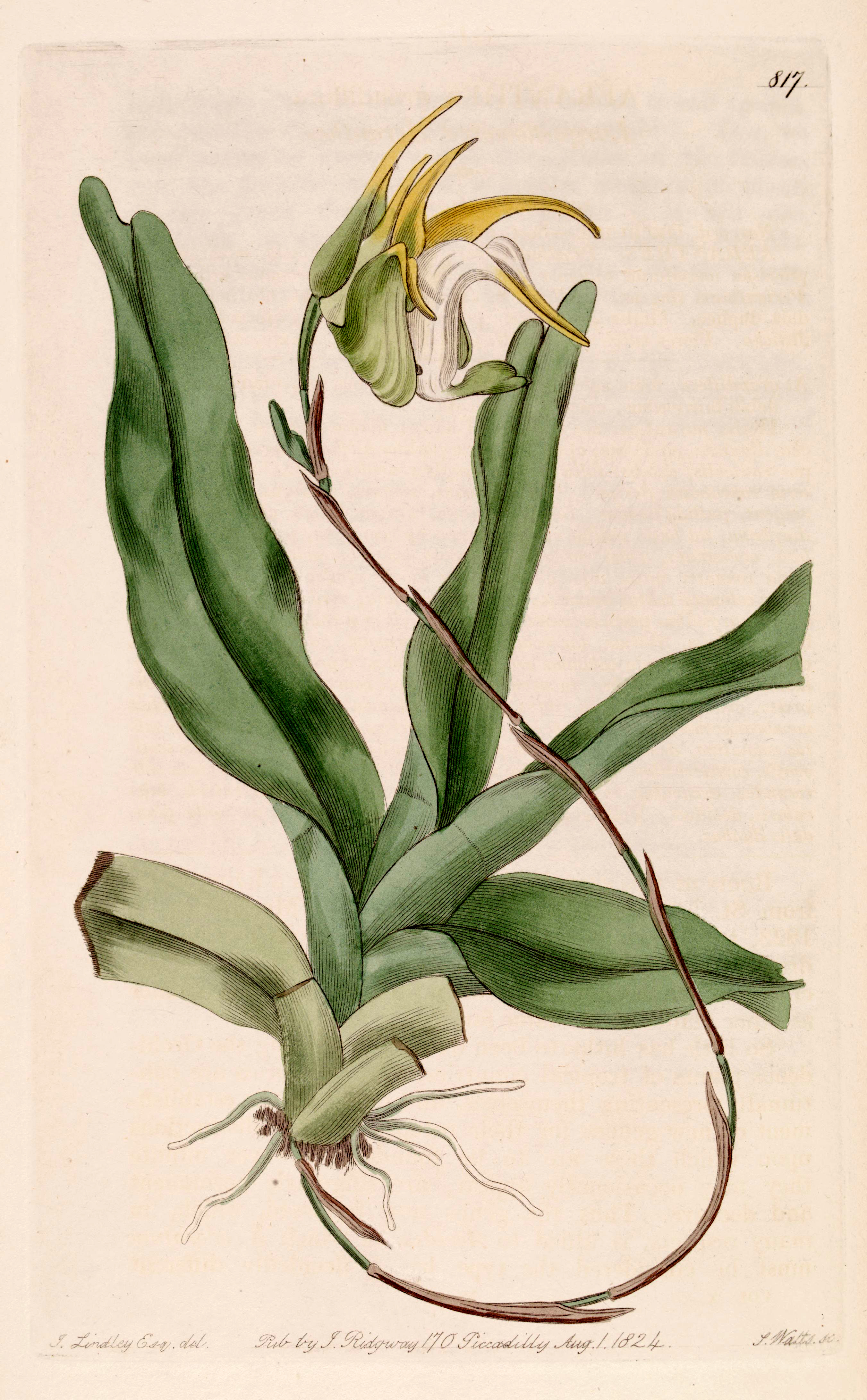 Illustration of Aeranthes grandiflora